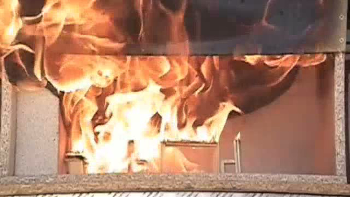 Flashover in course.